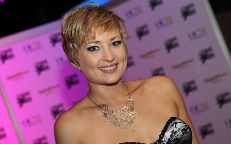 Nora Skyy at AVN Adult Entertainment Expo 2012. Photos from "the lost photo set" have been found! I had to share these, enjoy! Photos from the 2012 AVN Expo & AVN Awards held at the at the Hard Rock Hotel & Casino in Las Vegas. Please provide photographer credit when using, tweeting, etc... Photo by Michael Dorausch This photo is licensed under a Creative Commons license. If you use this photo within the terms of the license or make special arrangements to use the photo, please list the photo credit as "Michael Dorausch" and link the credit to .